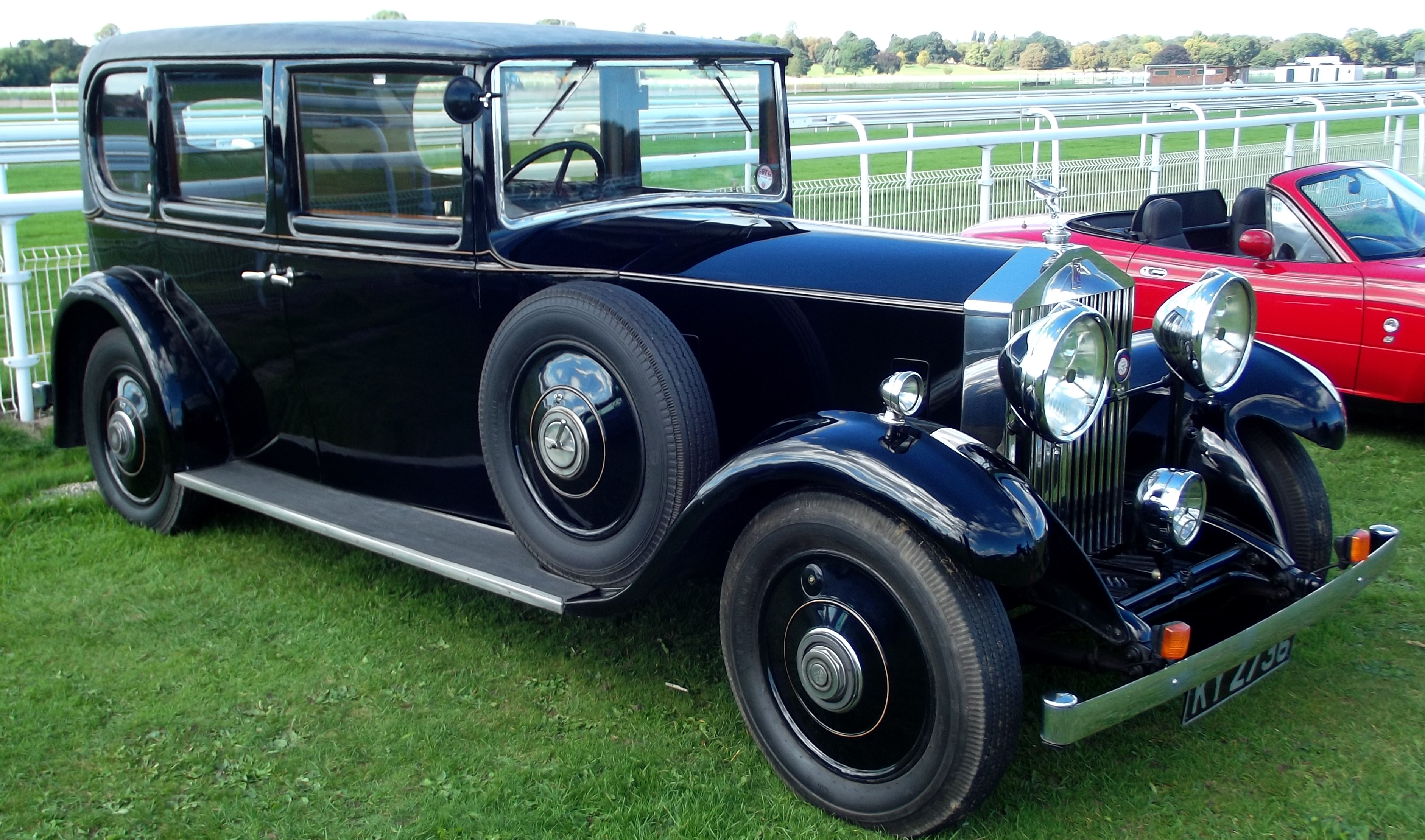 1932 Rolls Royce 2025 (GAU12) Rippon saloon